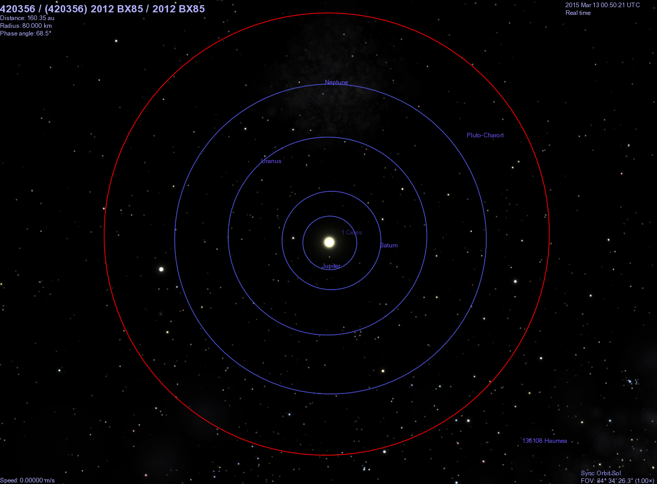 An image of the orbit of (420356) 2012 BX85 in Celestia